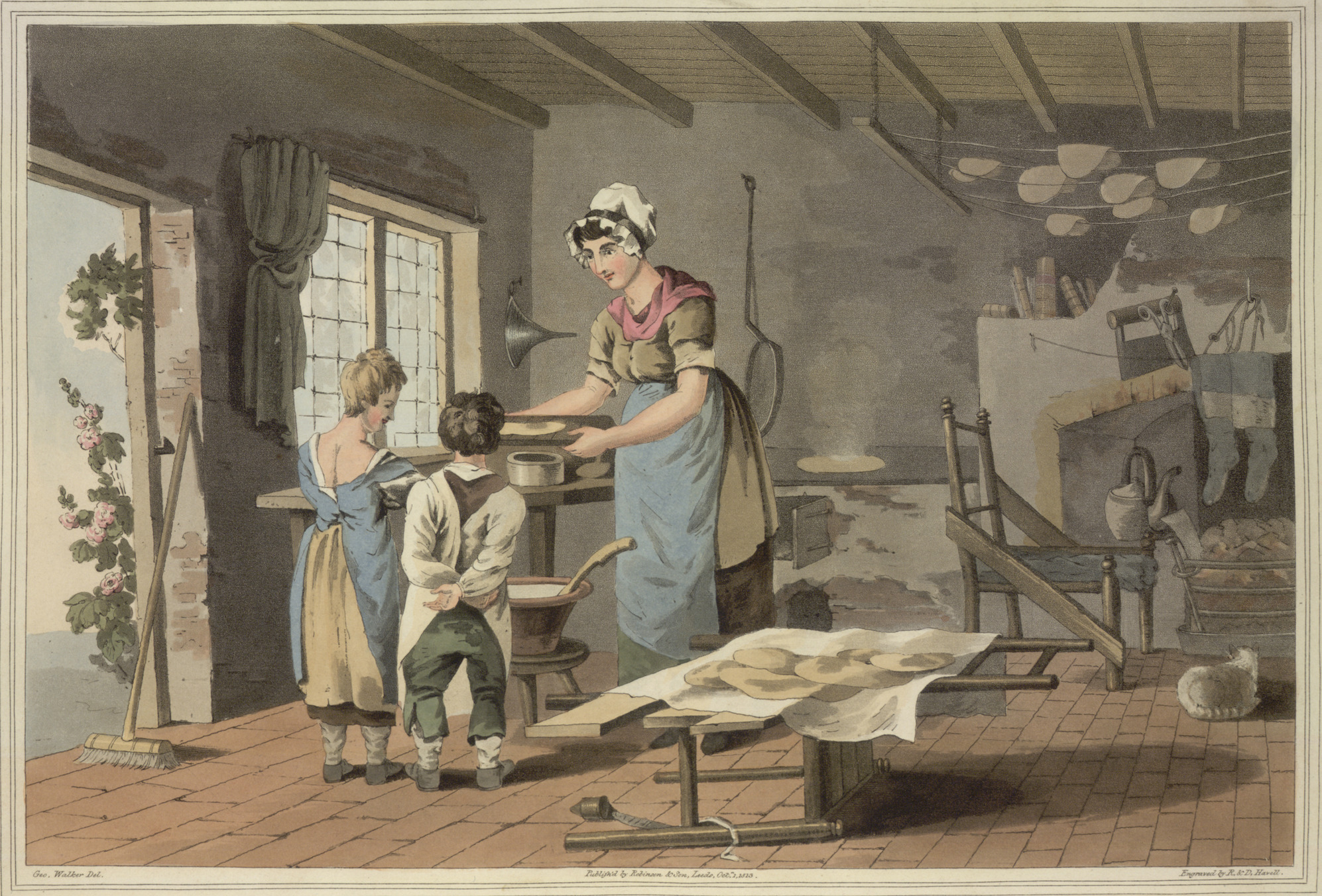 Making oat cakes A woman making oat cakes. Her two children watching.